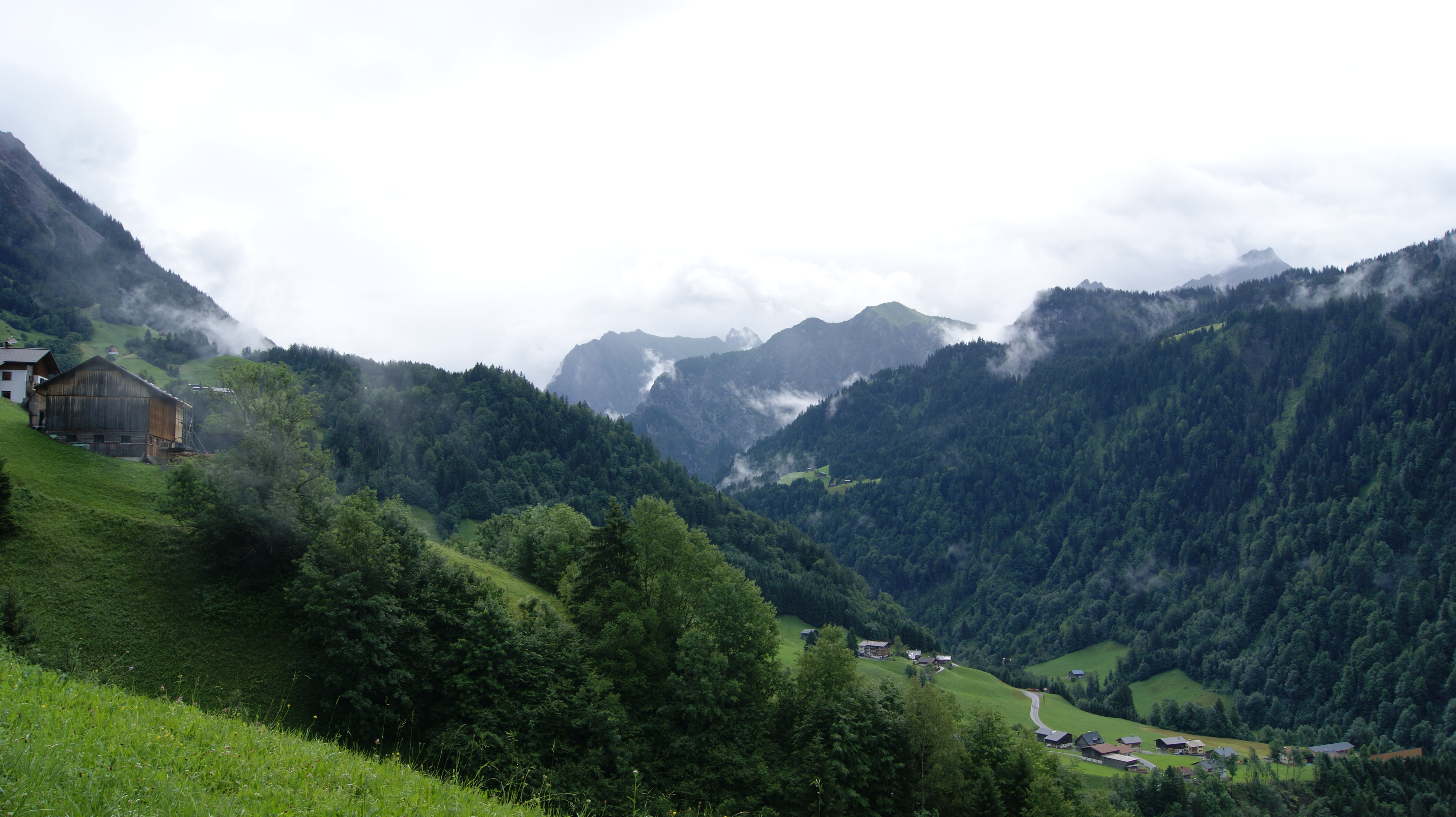 View from Fontanella in the "Grosses Walsertal" (valley) in Vorarlberg, Austria.